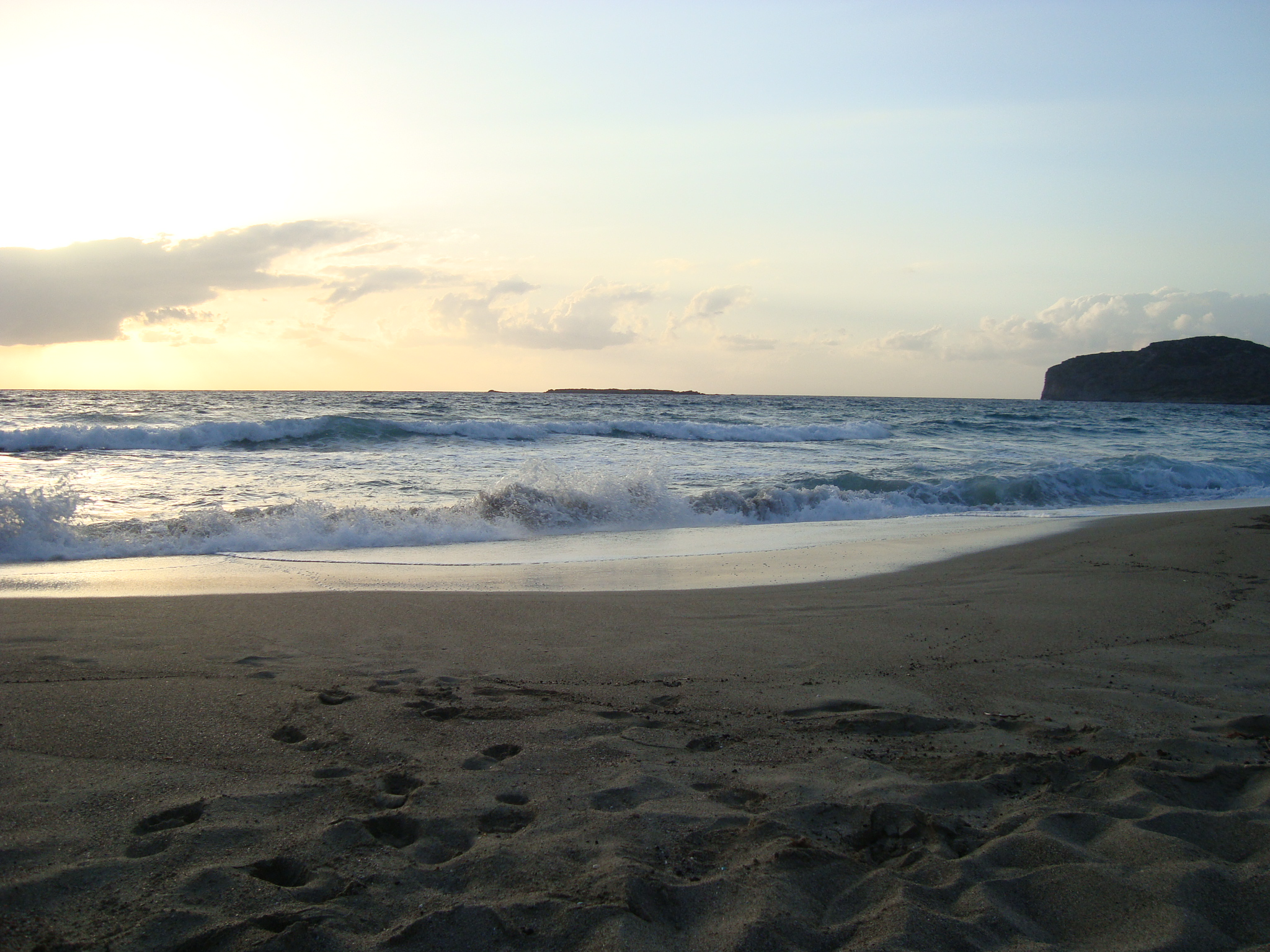 Petalida Islet in front of Falasarna, Kissamos, Crete, Greece